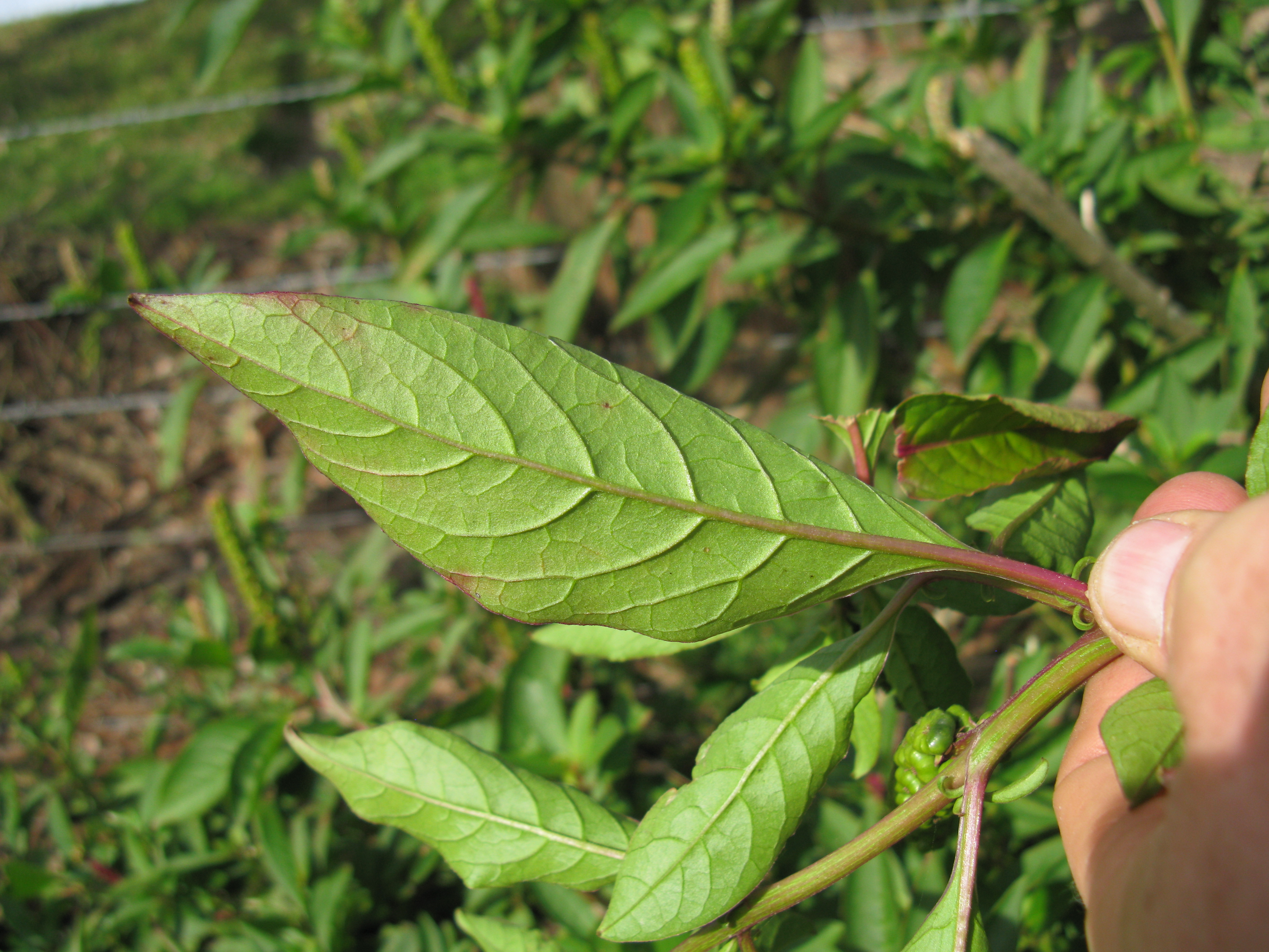 Introduced, warm-season, perennial herb to small shrub, commonly 1-2 m tall. Leaves are elliptical to oval with pointed tips, green turning red. Flowerheads are dense spike-like racemes of small greenish white flowers which develop into shiny succulent berries (to 10 mm across) that ripen to a dark reddish-purple. Flowering is from late spring to autumn. A native of tropical America, it is found in disturbed sites, wastelands and roadsides (e.g. where timber has been pushed up or burnt and where soil has been freshly cleared). Prefers moist areas and can invade areas of native vegetation if there is disturbance. An indicator of disturbance. Berries and leaves may be poisonous to stock, but are rarely grazed. Can be successfully controlled by chipping deeply enough to remove the crown. Hand pulling is ineffective and sap may cause skin irritation. Maintain ground cover and competition for ongoing control. Herbicides are registered for control.